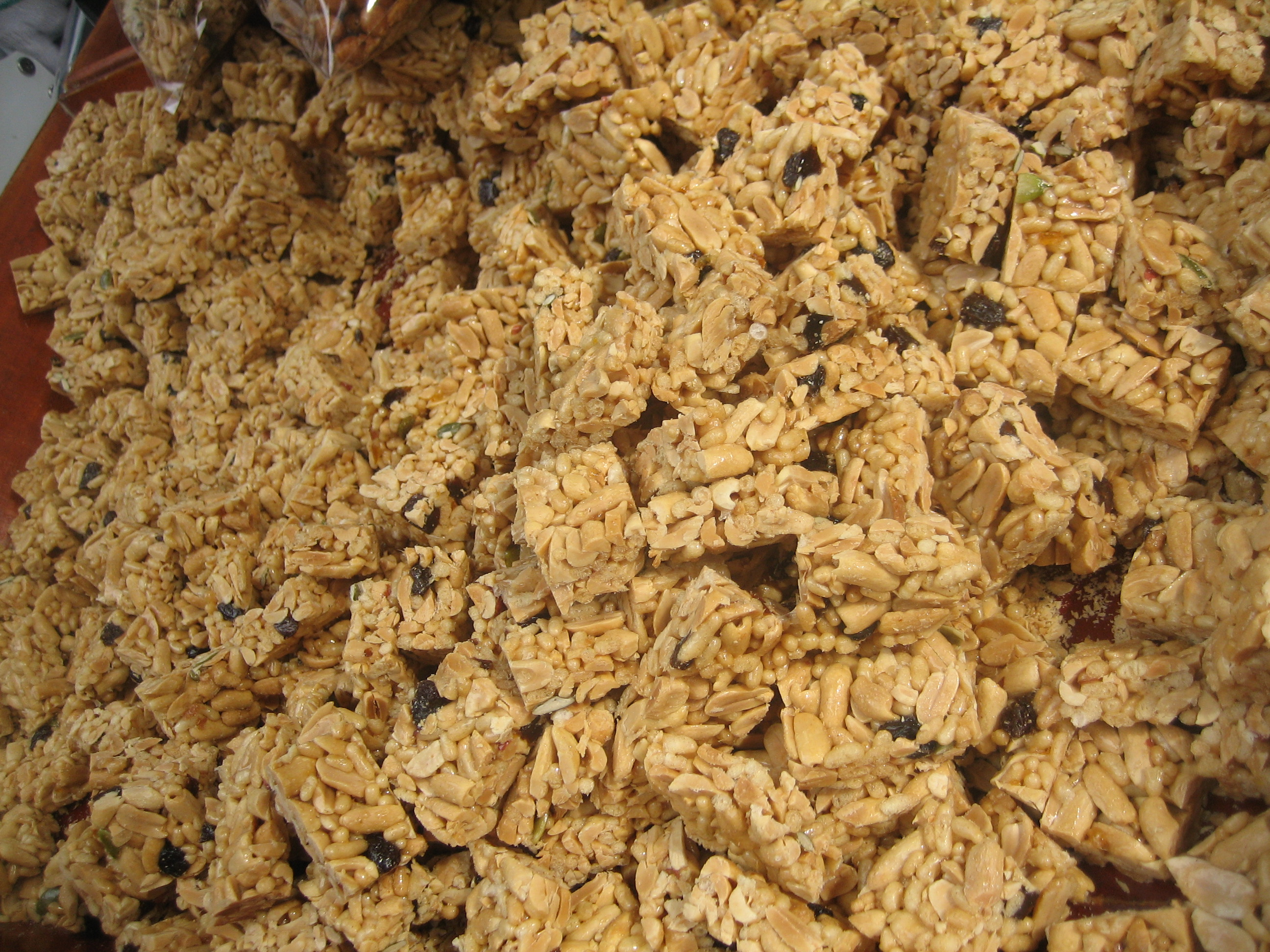 street food - rice sweets, seoul